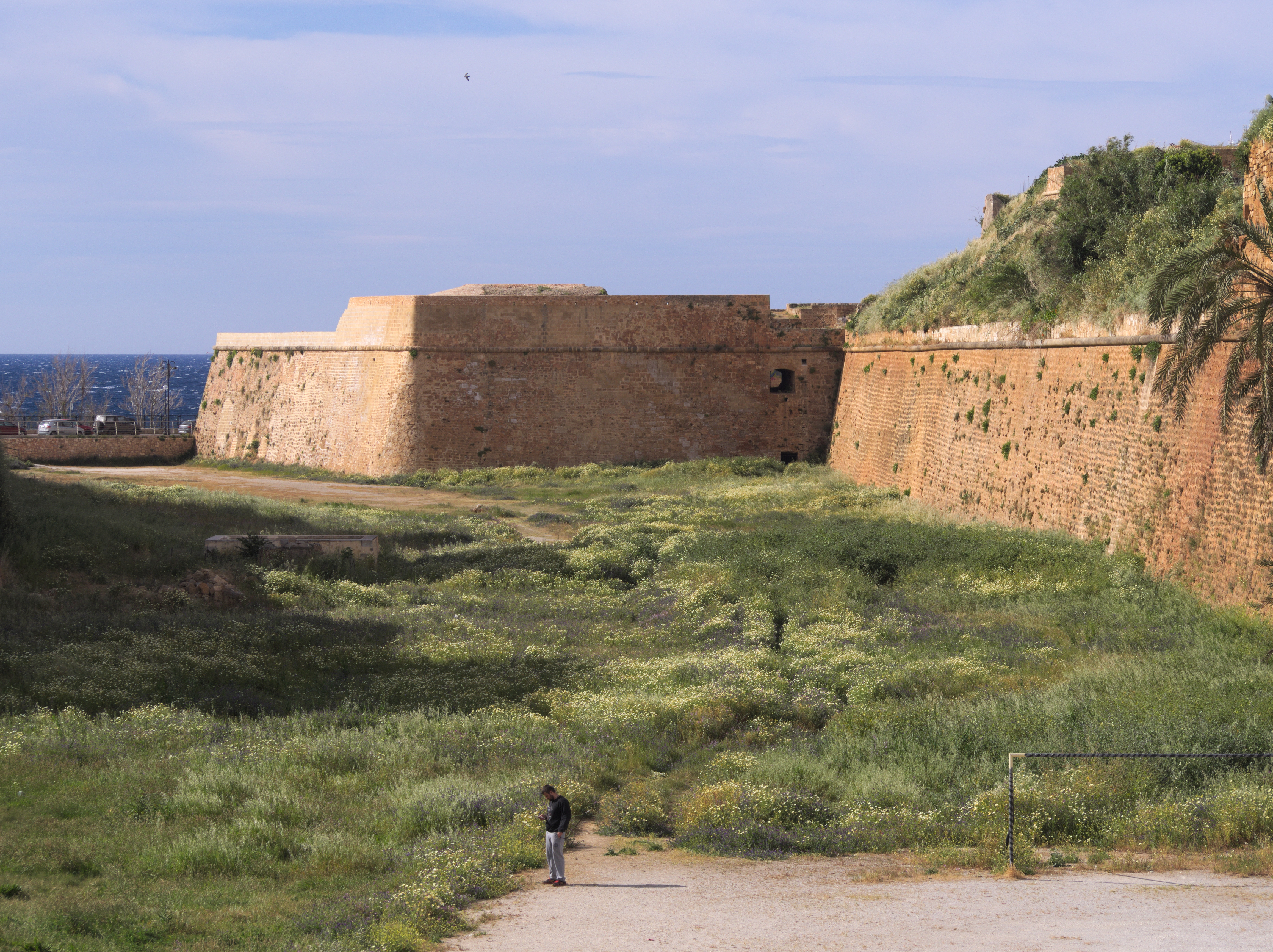 San Salvatore bastion, at the northwest corner of Chania city walls, as seen from south.